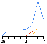 A graph of Google Search Volume for the terms Aptiquant (blue), browser iq (red), internet explorer iq (orange) for the dates between July 28, 2011 and August 4, 2011. Created with GIMP from data at accessed 8/25/2011.